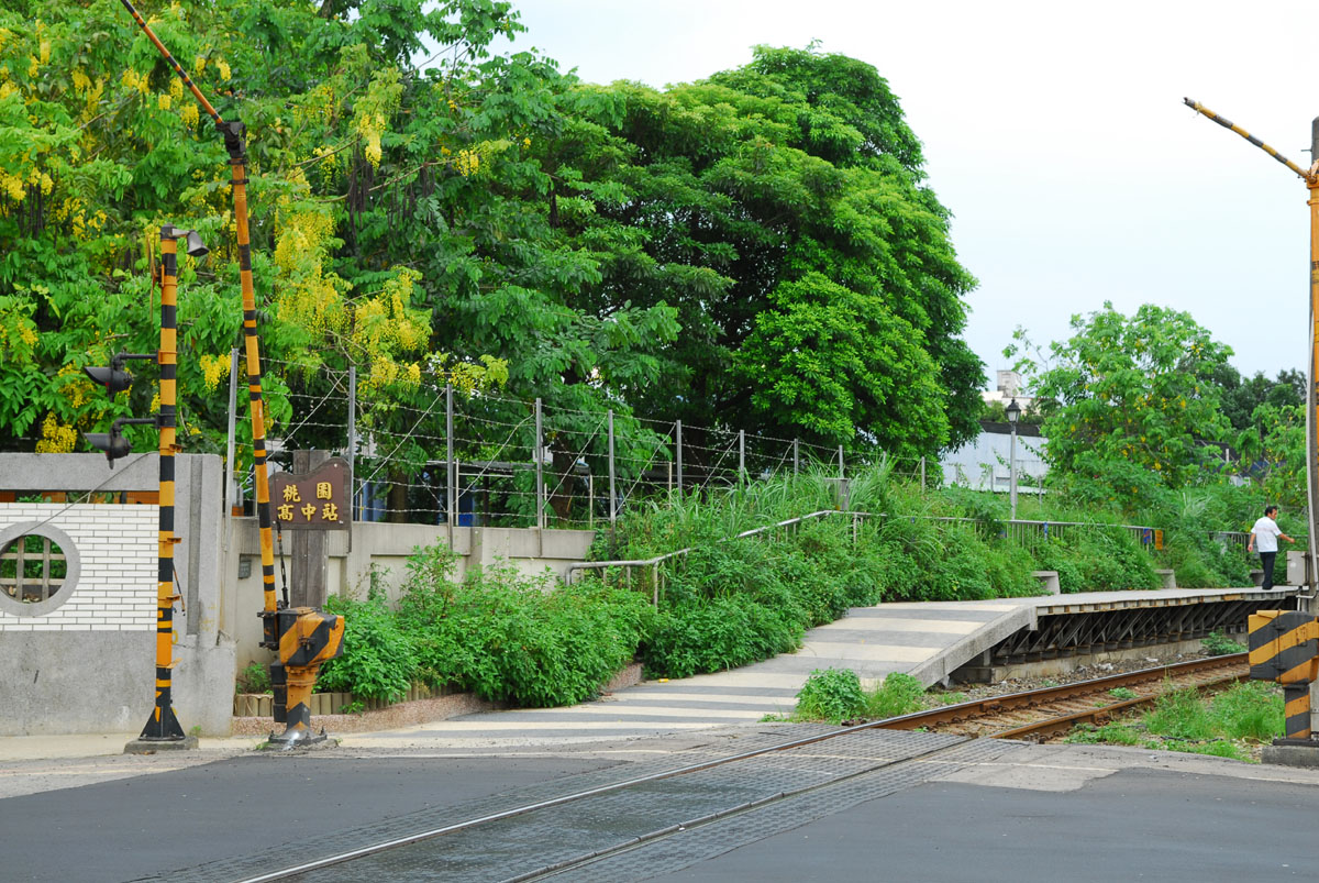 Taoyuan Senior High School Station is a small station on Linkou Line servicing nearby communities especially the students of Taoyuan Senior High School next door.